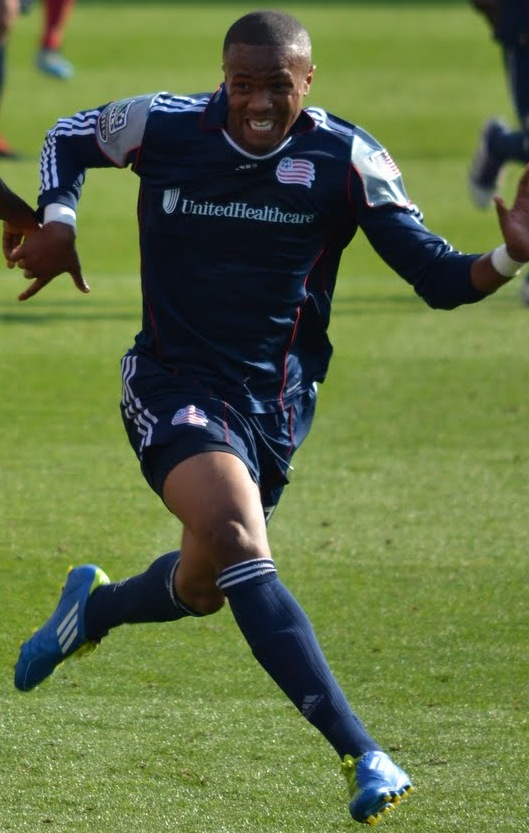 Darius Barnes of New England Revolution